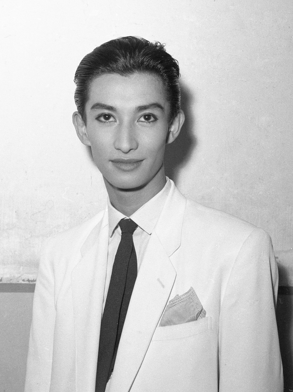 Japanese actor and singer Miwa Akihiro (美輪 明宏), before 1950.